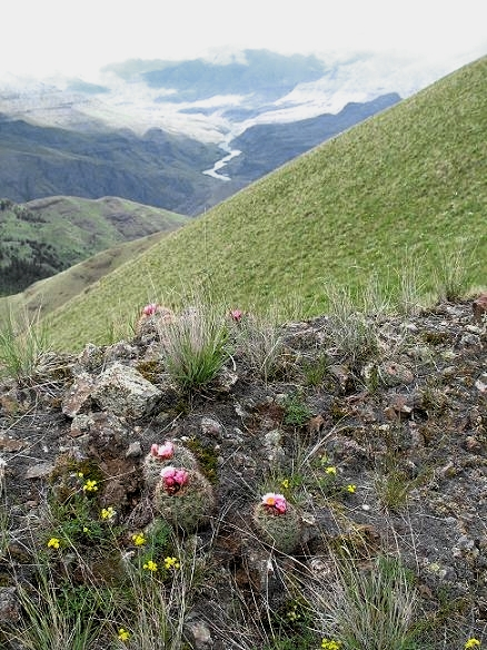 Pediocactus nigrispinus in a natural setting near the Salmon River.